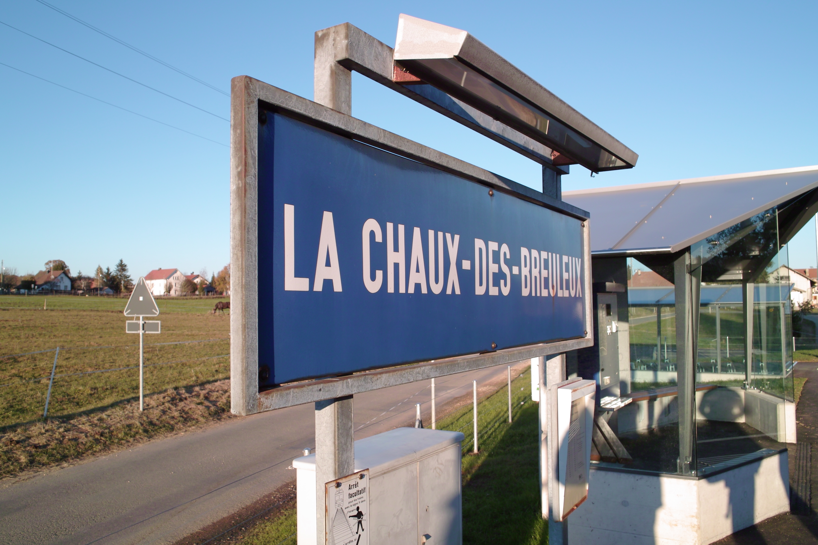 Railway station of La Chaux-des-Breuleux, canton of Jura, Switzerland.